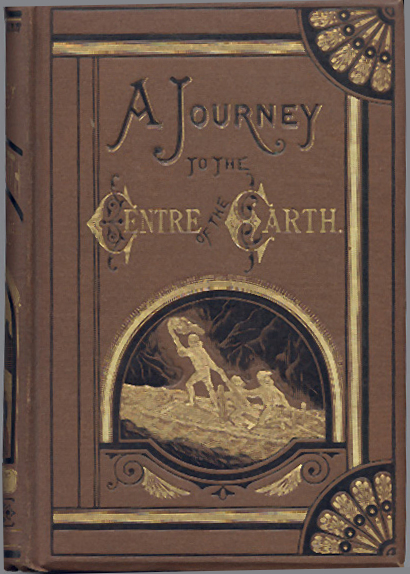 1874 Edition Book Cover, nabbed from